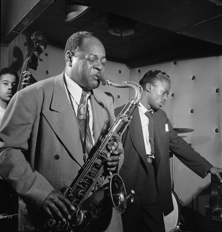 Portrait of Coleman Hawkins and Miles Davis, Three Deuces, New York, N.Y.